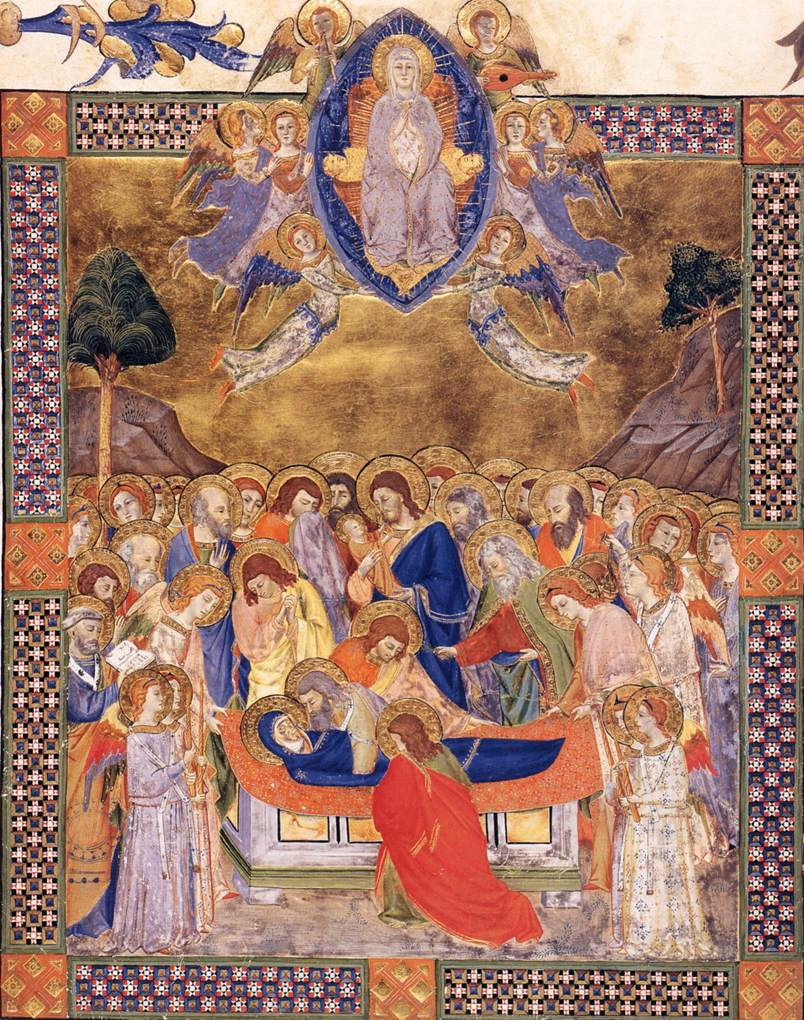 The miniature from folio 142 depicts the Death and Assumption of the Virgin. It introduces the liturgy for the feast of the Assumption (August 15). The monumentally rendered narration of the Virgin Mary's death visualizes three crucial moments in a single composition: her entombment, the passing of her soul to Christ, and her assumption to the heavenly realm. A great multitude of apostles and angels - appropriate to the illumination's provenance from a choir book made for the monastery of Santa Maria degli Angeli - and Christ have gathered around the Virgins's sarcophagus.